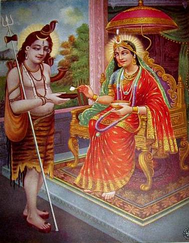 Opposites often meet: the wandering ascetic Shiva is shown accepting alms from Annapurna Devi, a benevolent goddess of plenty (bazaar art, c.1930's) Source: ebay, Oct. 2006